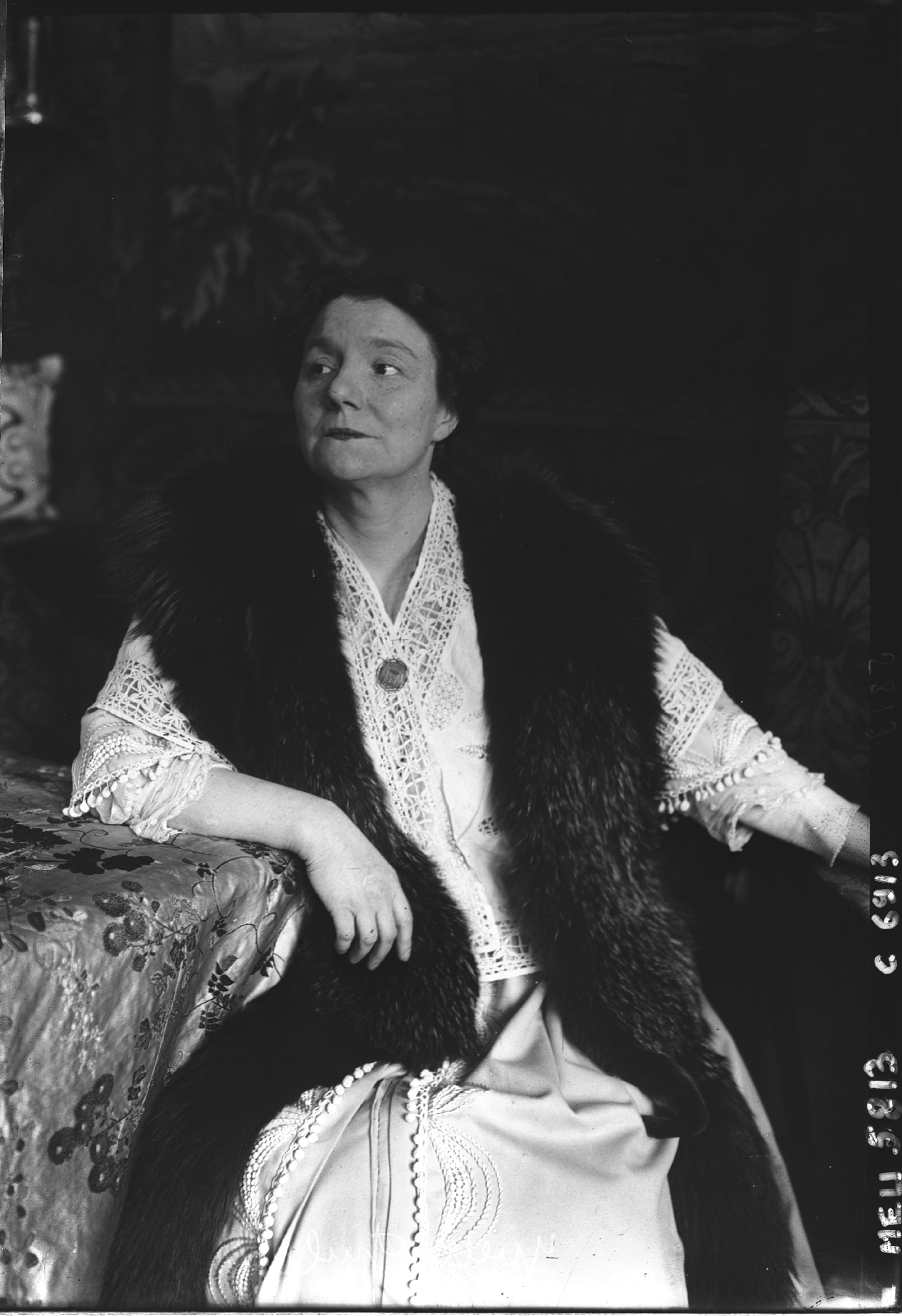 French singer Yvette Guilbert (1867-1944).